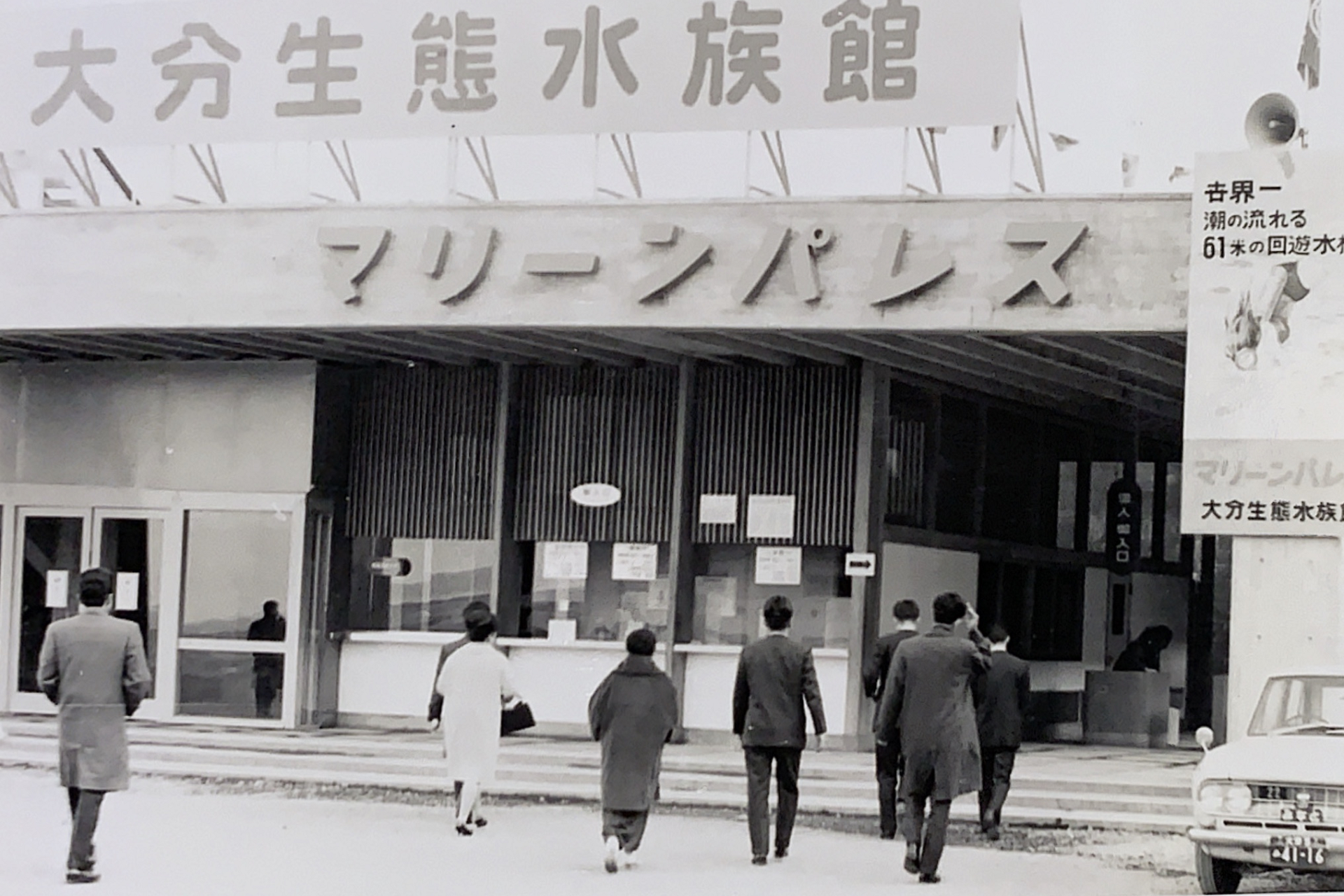 From my own photo album - Oita Ecological Aquarium Marine Palace (1960s)